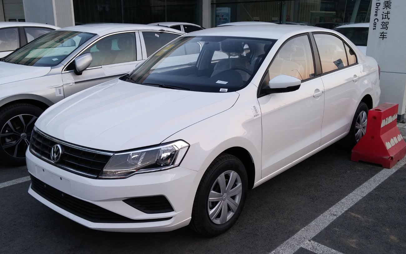 Volkswagen Jetta CN II facelift photographed in Changchun, Jilin province, China.